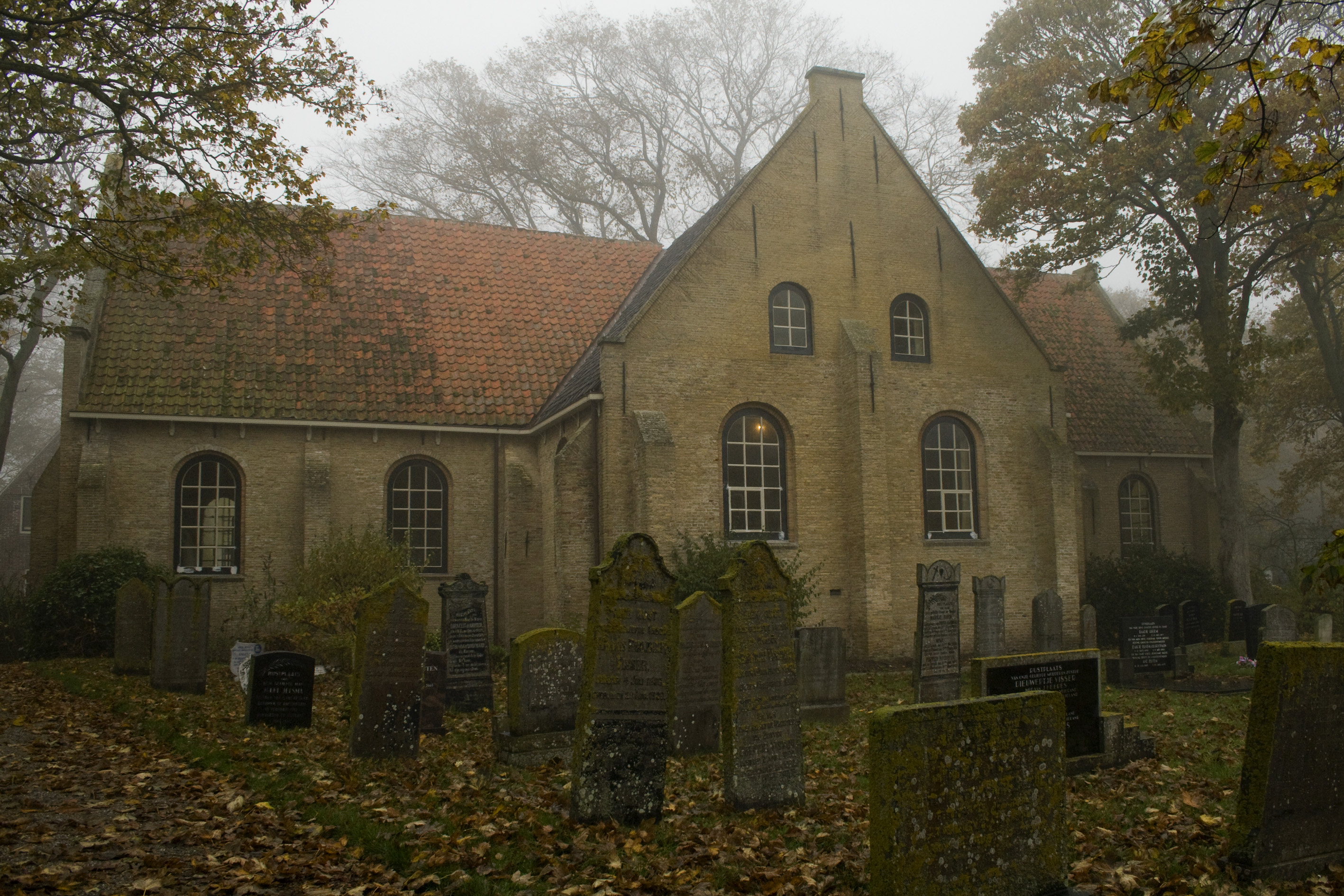 Saint-Nicolas church on sunday on Vlieland